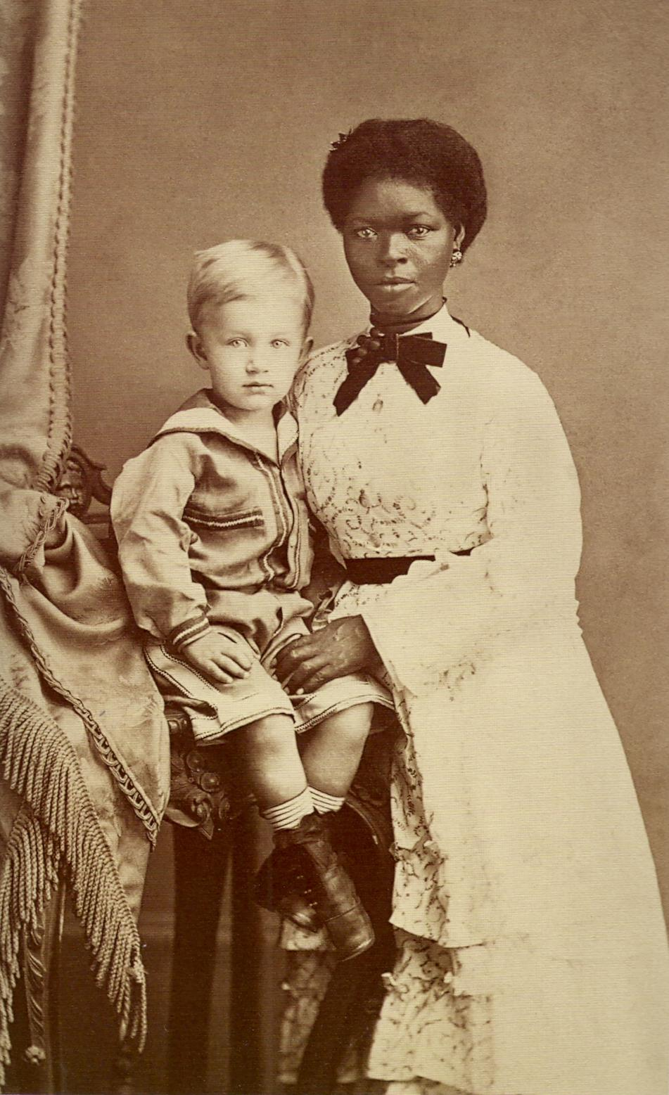 Eugen Keller and his nanny in Pernambuco, Brazil.